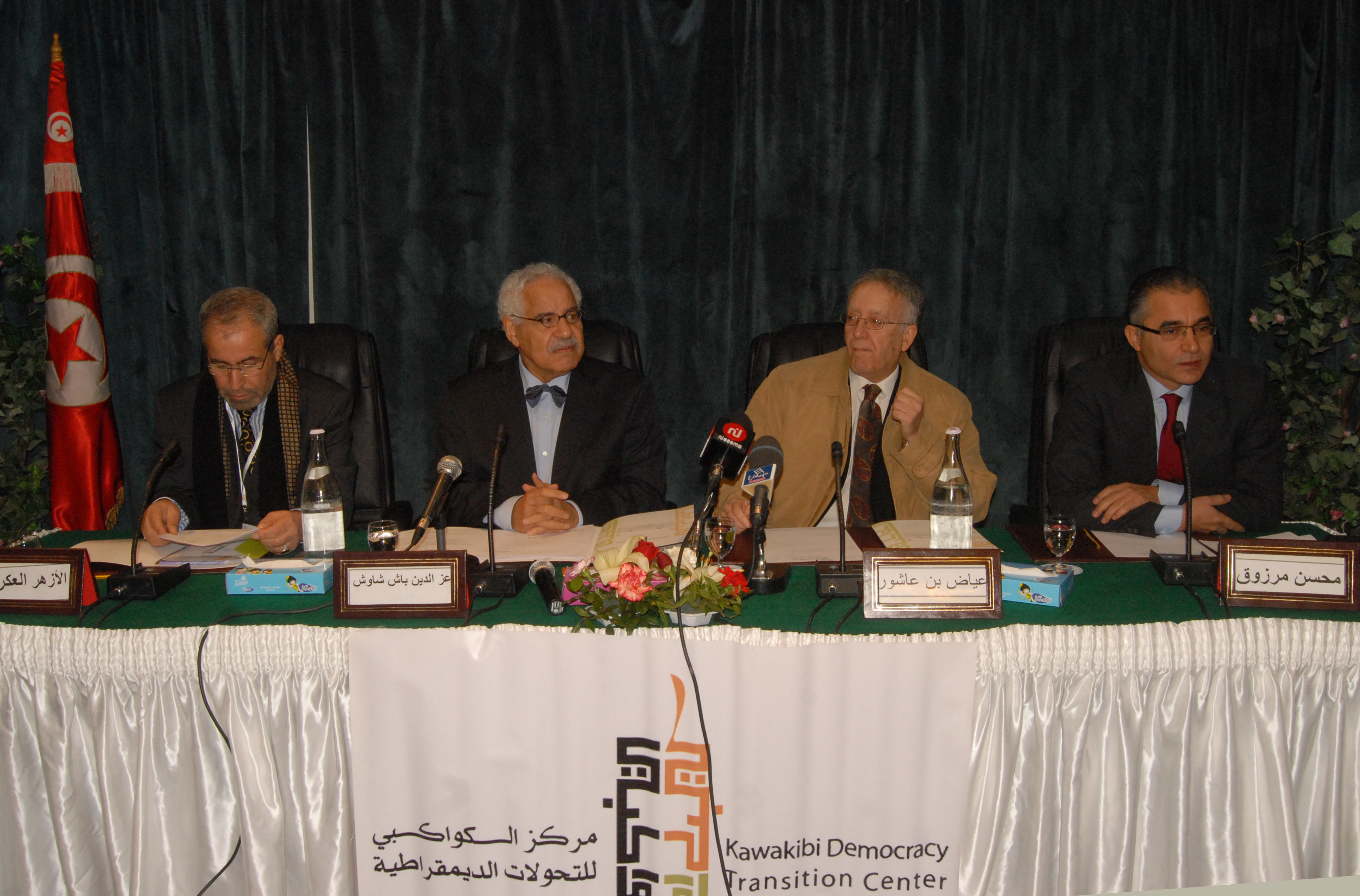 Culture Minister Ezzeddine Bach Chaouch (middle), along with activists Lazhar Akremi (left), Yadh Ben Achour and Mohsen Marzouk (right), attended a conference on Tunisia's political future